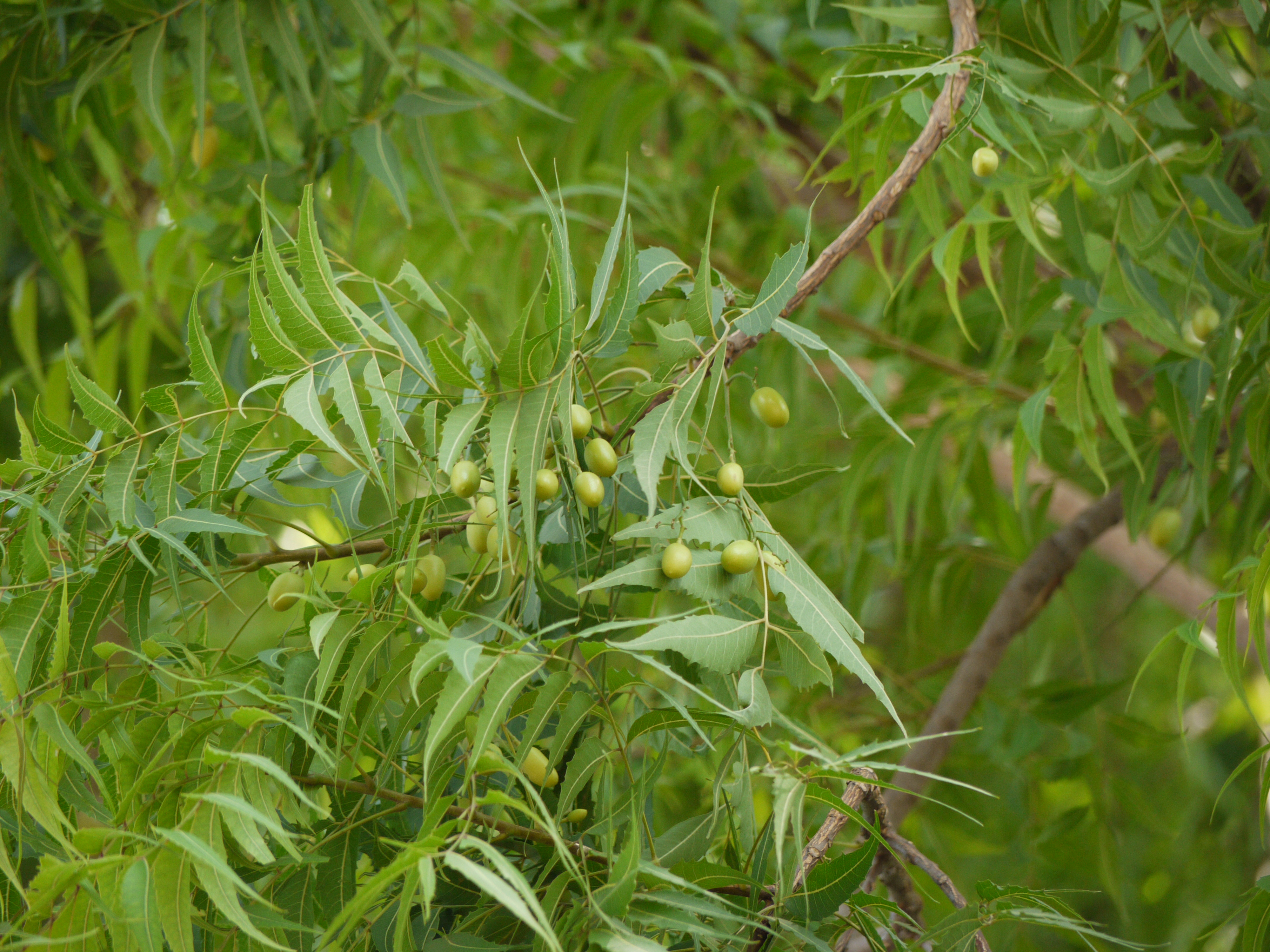 Meliaceae (melia, or mahogany family) » Azadirachta indica A. Juss. ay-zad-ih-RAK-tuh -- from the Arab name for this plant meaning free (or noble) tree ... Dave's Botanary IN-dih-kuh or in-DEE-kuh -- of or from India ... Dave's Botanary commonly known as: Indian lilac, margosa, neem • Assamese: নিম nim • Bengali: নিম nim • Gujarati: લીમડો limdo • Hindi: नीम nim • Kannada: ಬೇವು bevu, ನಿಮ್ಬ nimba • Konkani: कोड्बेवु kodbevu • Malayalam: ആര്യവേപ്പ് aryavepp • Manipuri: নীম neem • Marathi: कडुलिंब kadulimba • Nepali: नीम neem • Oriya: ନିମ nim • Pali: निम्ब nimba, पुचिमन्द puchimanda • Persian: azad-darakht-e-hindi • Punjabi: ਨਿੱਮ nimm • Sanskrit: निम्ब nimba • Tamil: வேம்பு vempu • Telugu: వేప vepa • Tibetan: ni mba • Tulu: ಬೇವು bevu • Urdu: نيم neem Native to: India, Bangladesh, n Myanmar, Indo-China; naturalized / cultivated elsewhere; exact native range obscure References: Flowers of India • NPGS / GRIN • ENVIS - FRLHT